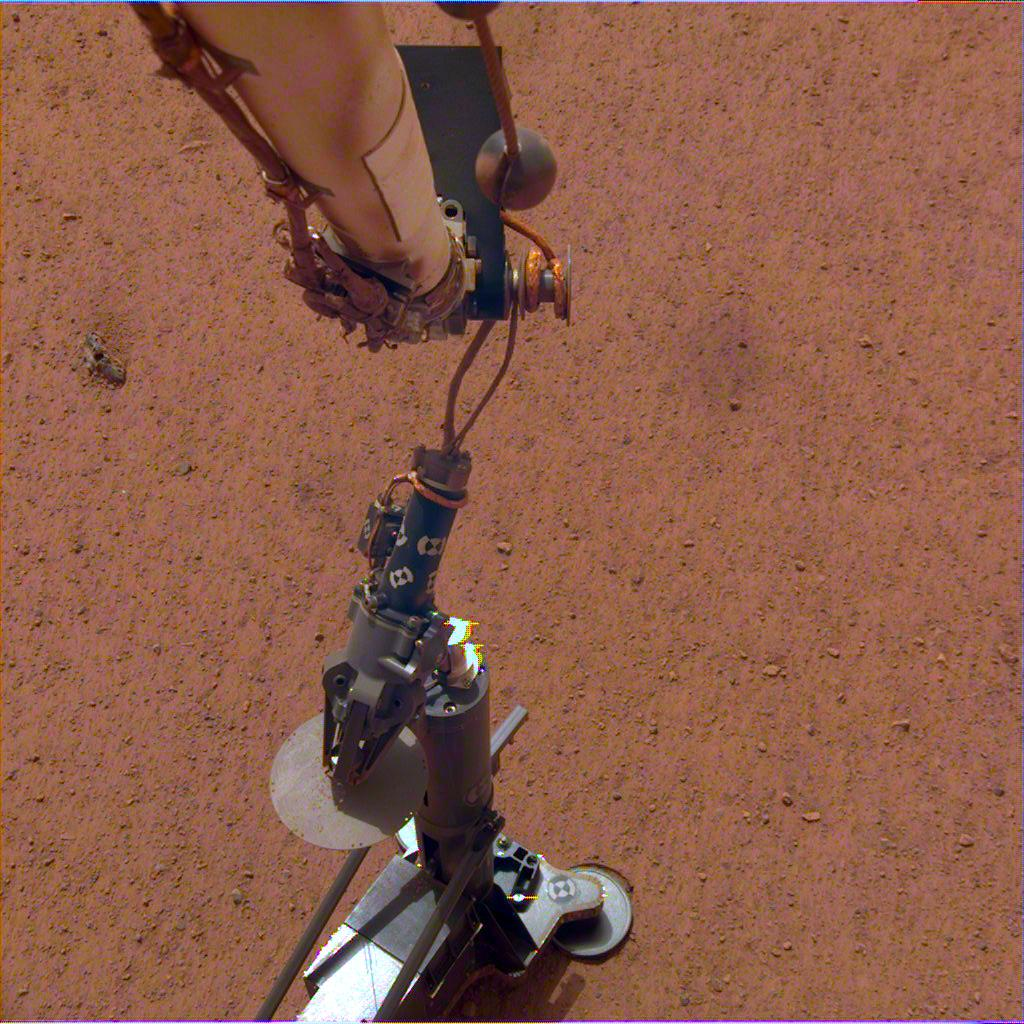 PIA23046: HP3 on the Martian Surface NASA's InSight lander set its heat probe, called the Heat and Physical Properties Package (HP3), on the Martian surface on Feb. 12, 2019. JPL manages InSight for NASA's Science Mission Directorate. InSight is part of NASA's Discovery Program, managed by the agency's Marshall Space Flight Center in Huntsville, Alabama. Lockheed Martin Space in Denver built the InSight spacecraft, including its cruise stage and lander, and supports spacecraft operations for the mission. A number of European partners, including France's Centre National d'Études Spatiales (CNES) and the German Aerospace Center (DLR), are supporting the InSight mission. CNES and the Institut de Physique du Globe de Paris (IPGP) provided the Seismic Experiment for Interior Structure (SEIS) instrument, with significant contributions from the Max Planck Institute for Solar System Research (MPS) in Germany, the Swiss Institute of Technology (ETH) in Switzerland, Imperial College and Oxford University in the United Kingdom, and JPL. DLR provided the Heat Flow and Physical Properties Package (HP3) instrument, with significant contributions from the Space Research Center (CBK) of the Polish Academy of Sciences and Astronika in Poland. Spain's Centro de Astrobiología (CAB) supplied the wind sensors. For more information about the mission, go to